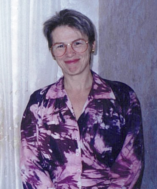 Image of Philippa "Pippa" Marrack circa 1992